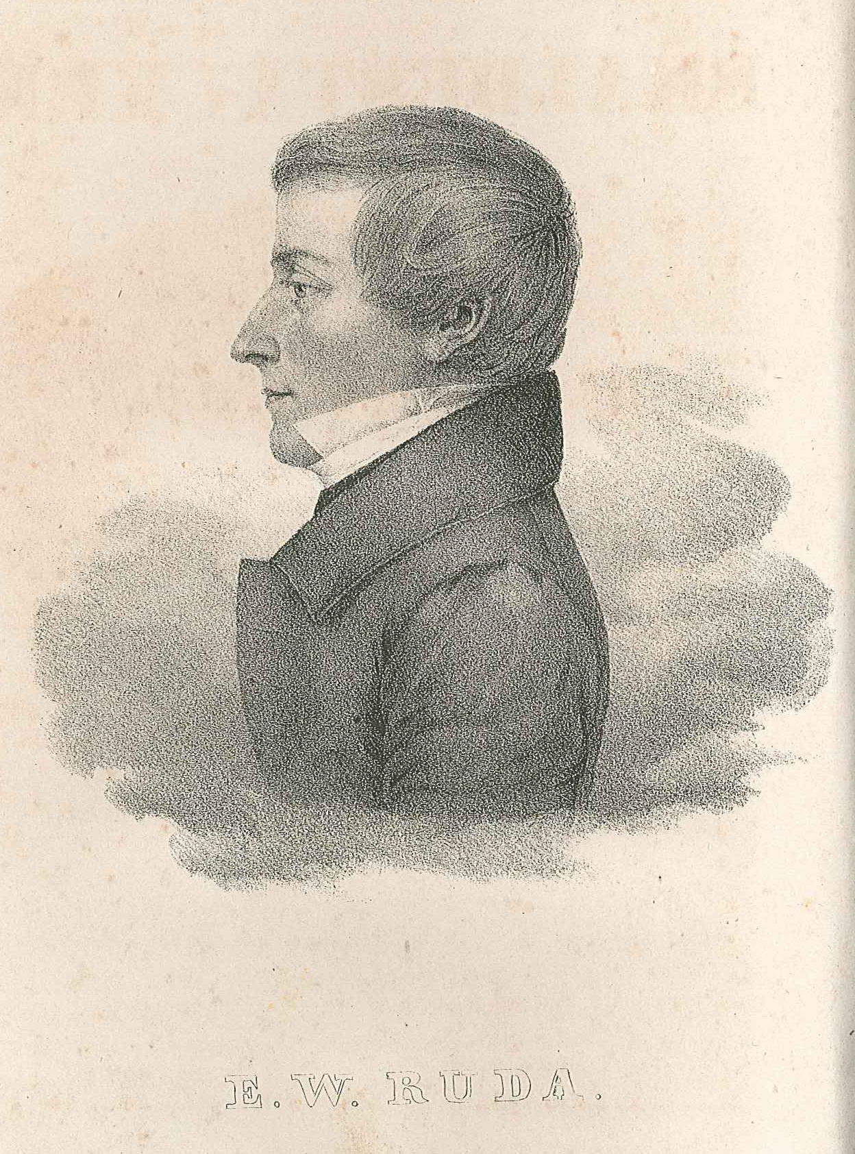 Elias Wilhelm Ruda (1807-1833), Swedish poet and literary critic. Litography by unknown artist in the posthumously issued book of his collected poems (1834).